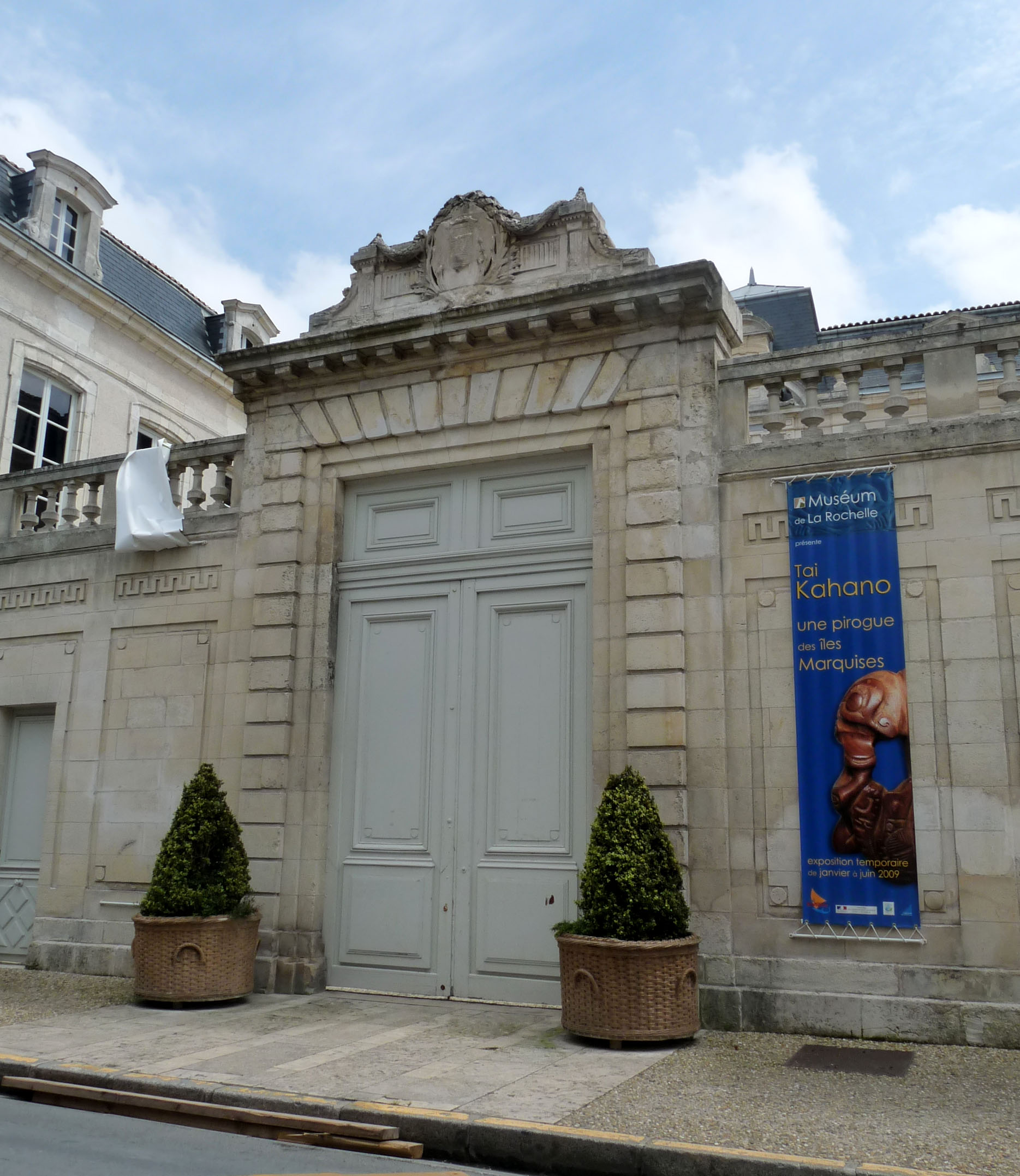 Muséum d'histoire naturelle de La Rochelle (front door)